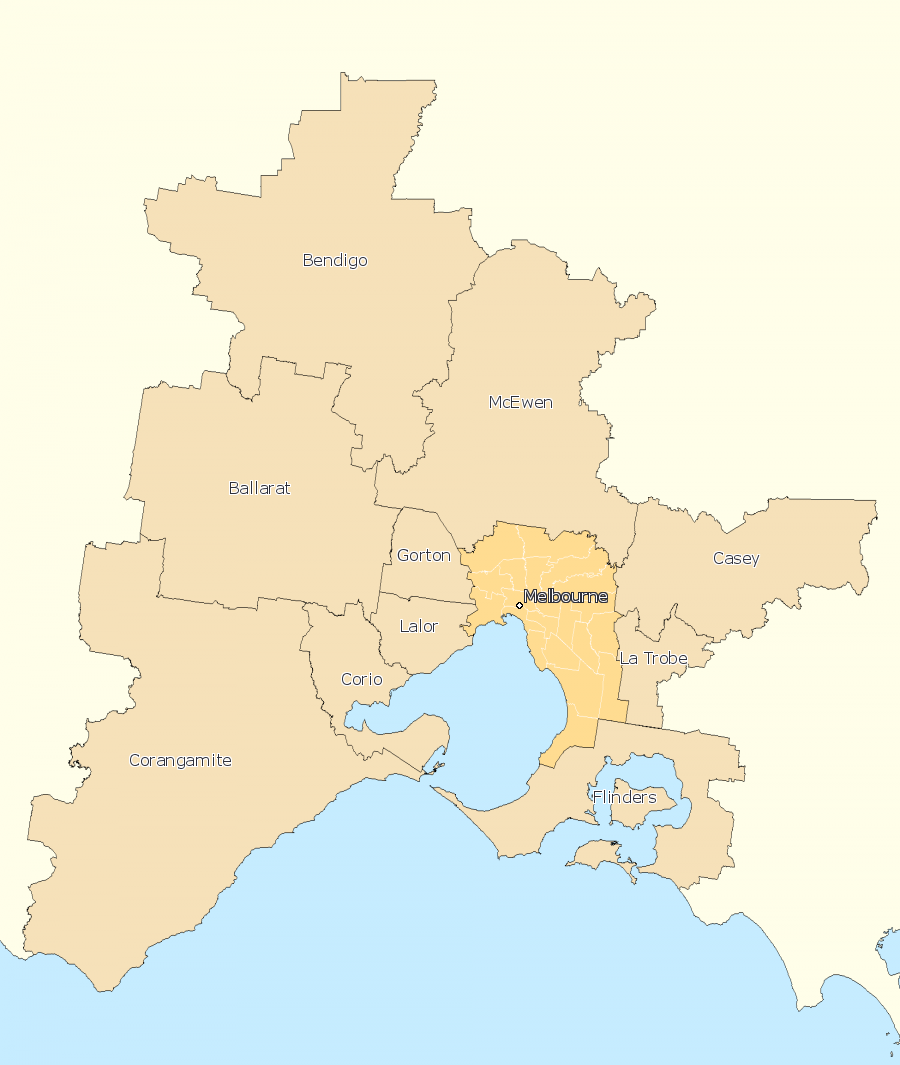 Incorporates or developed using Administrative Boundaries ©PSMA Australia Limited licensed by the Commonwealth of Australia under Creative Commons Attribution 4.0 International licence (CC BY 4.0). Derived from State and Territory Boundaries from the Australian Bureau of Statistics under Creative Commons Attribution 2.5 Australia license (CC BY 2.5 AU)